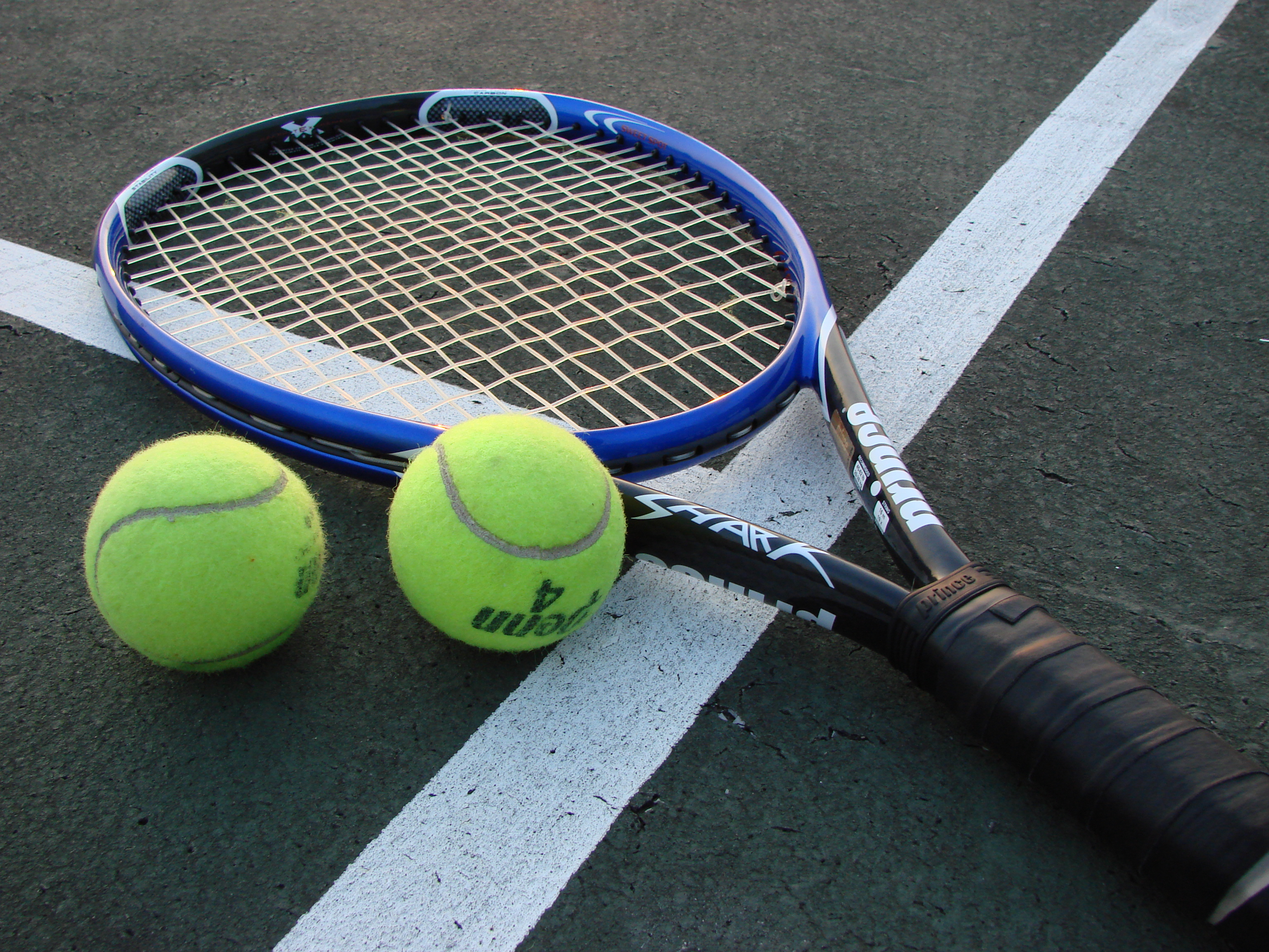 Shot of a tennis racket and two tennis balls on a court. Taken by myself of my racket. Intended for use in WikiProject Tennis Template. vlad§inger tlk 04:59, 18 June 2007 (UTC)